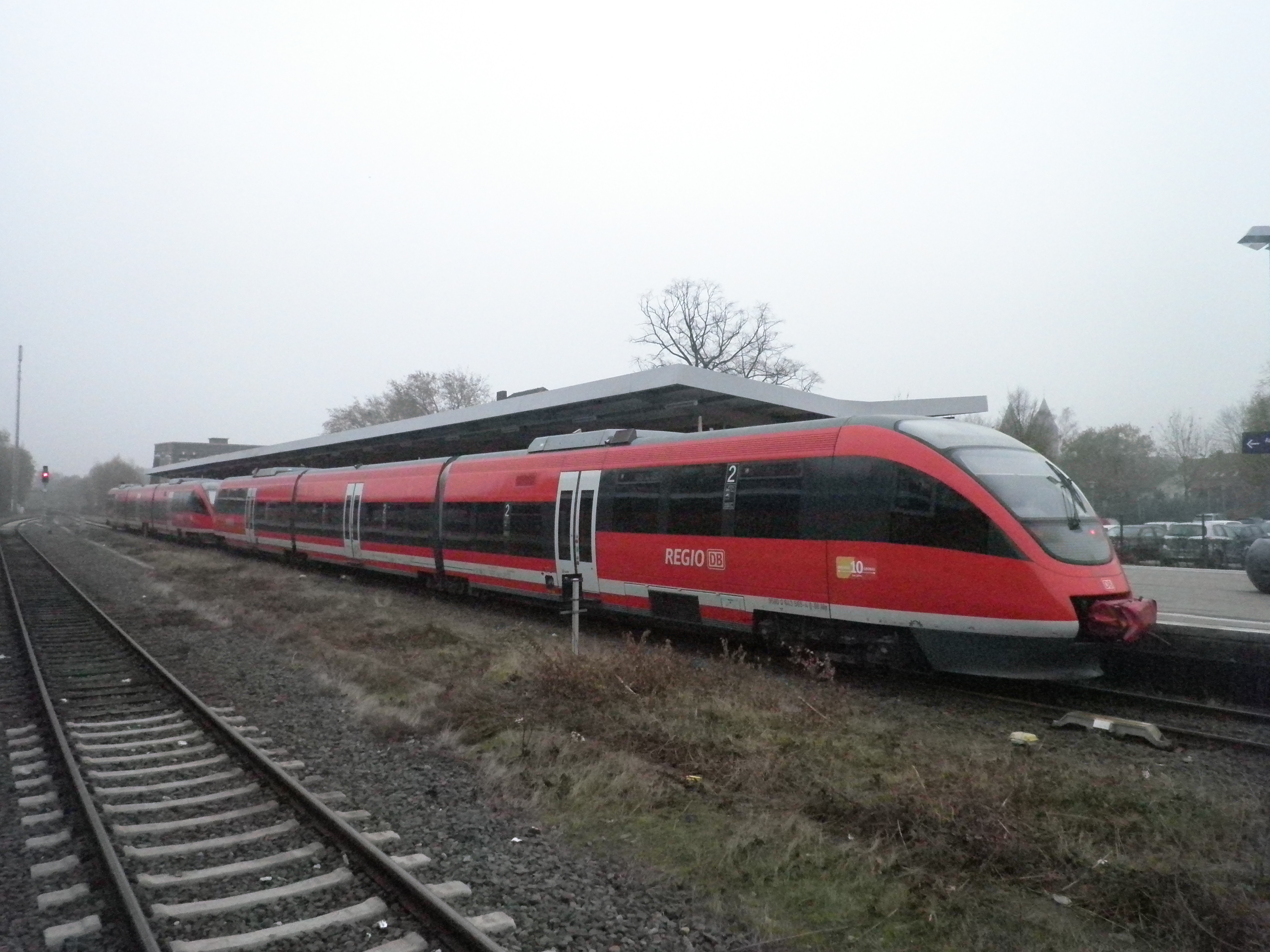 2x DB Class 643 at Gronau (Westf), Germany.